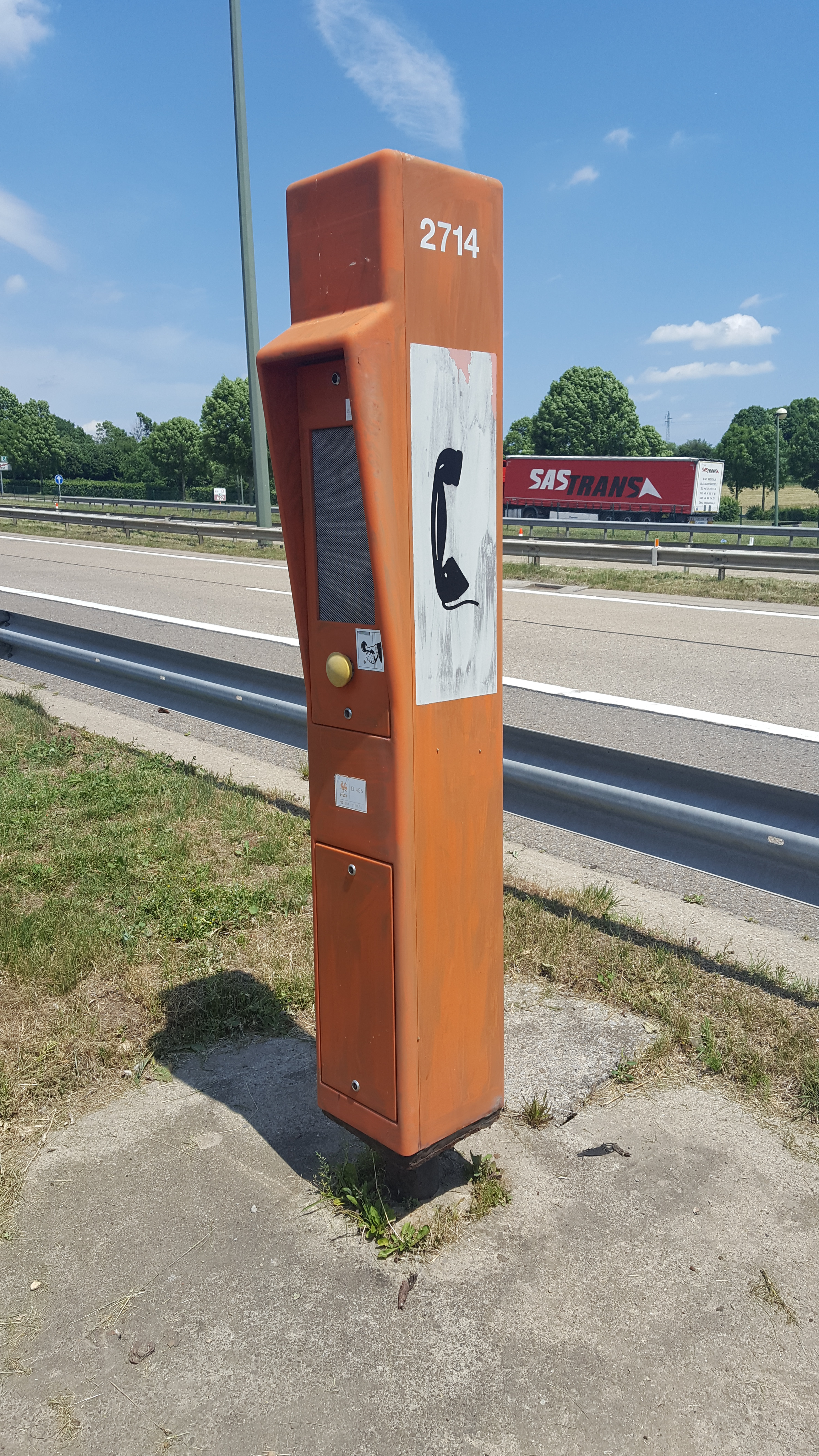 Emergency phone at parking of Aire de Polleur west at the E42 in Belgium